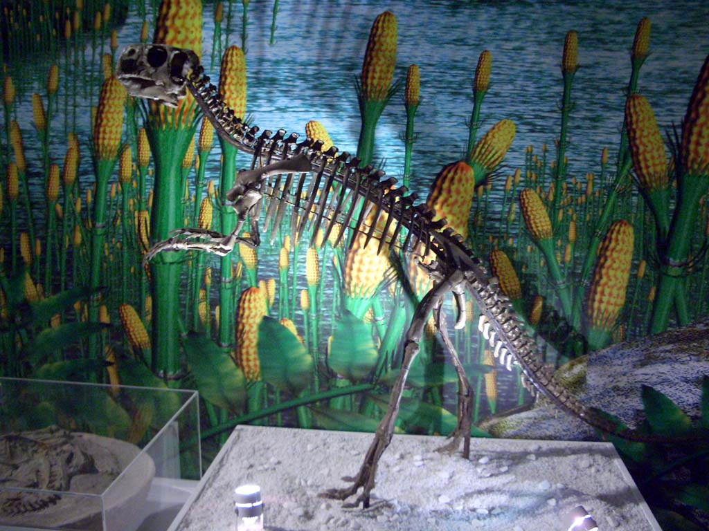 Psittacosaurus mongoliensis skeleton displayed in Hong Kong Science Museum